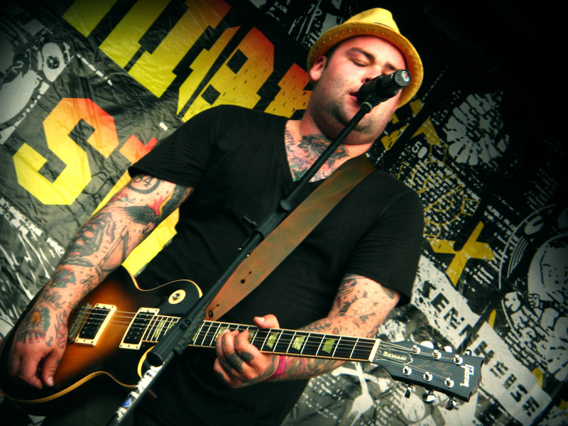 Wade Macneil performing as Black Lungs at Warped Tour in Toronto on July 19th, 2008.